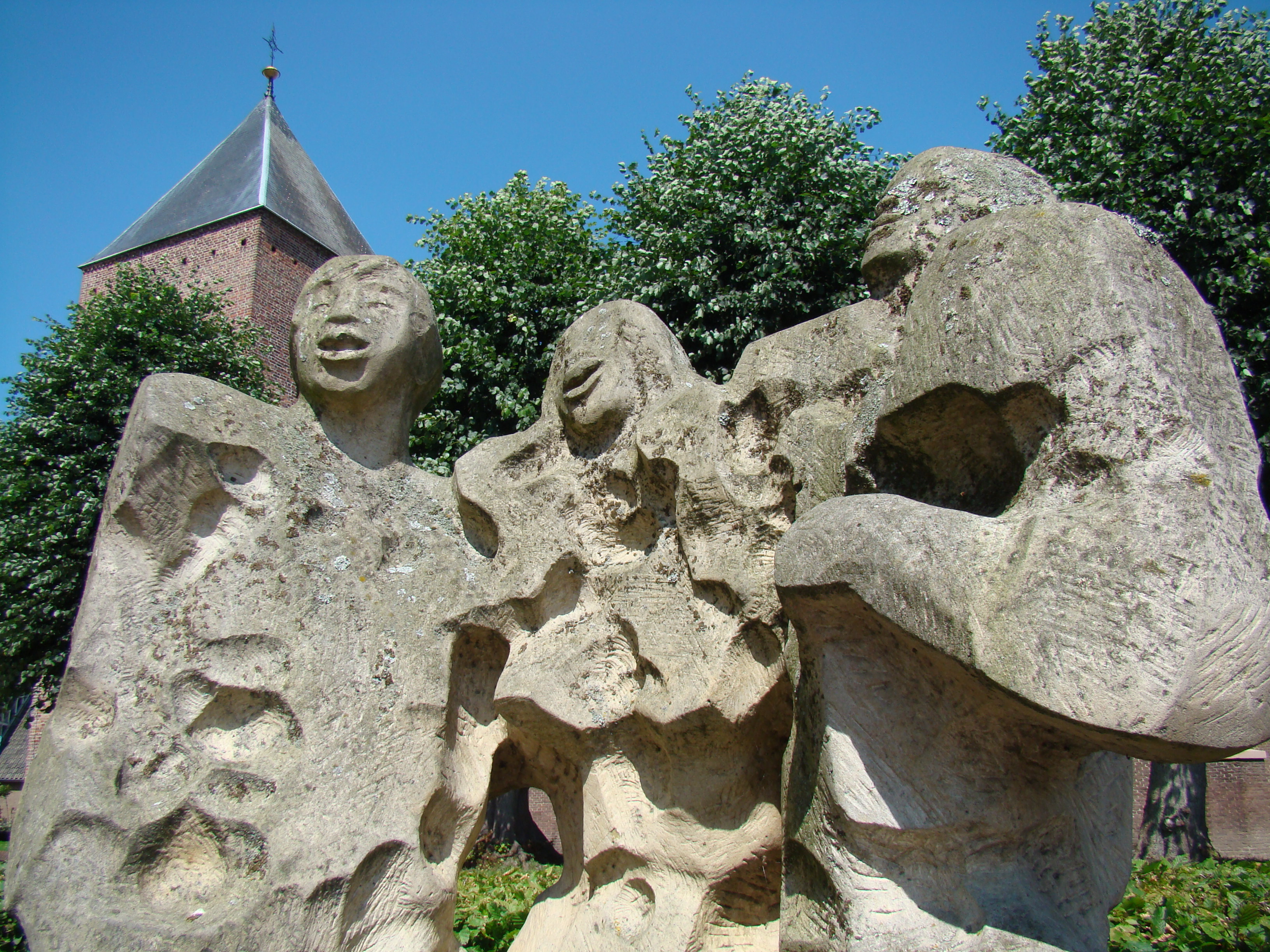 Impressions of Borger (Netherlands)